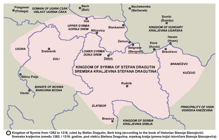 Kingdom of Syrmia from 1282 to 1316, ruled by Stefan Dragutin, Serb king (according to the book of historian Stanoje Stanojević).